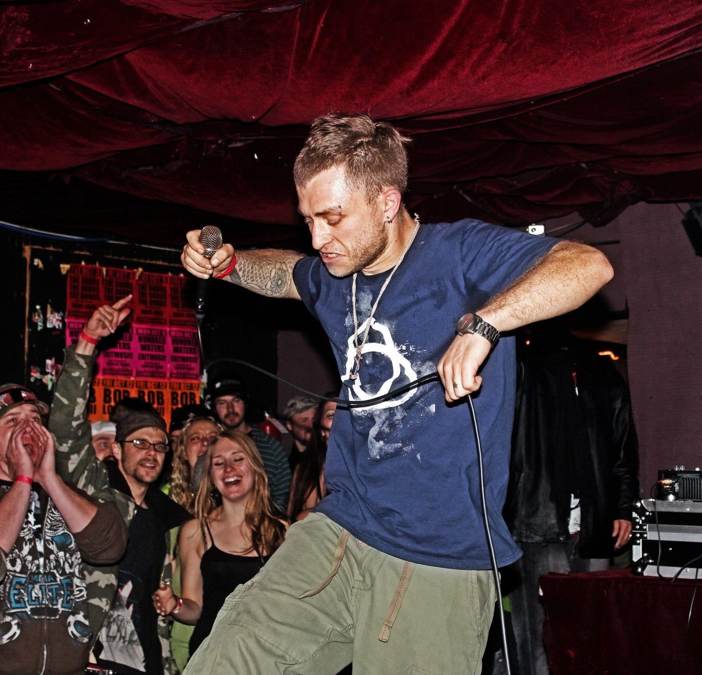 Dub FX at Larimer's Lounge (Denver, CO) 10/06/12